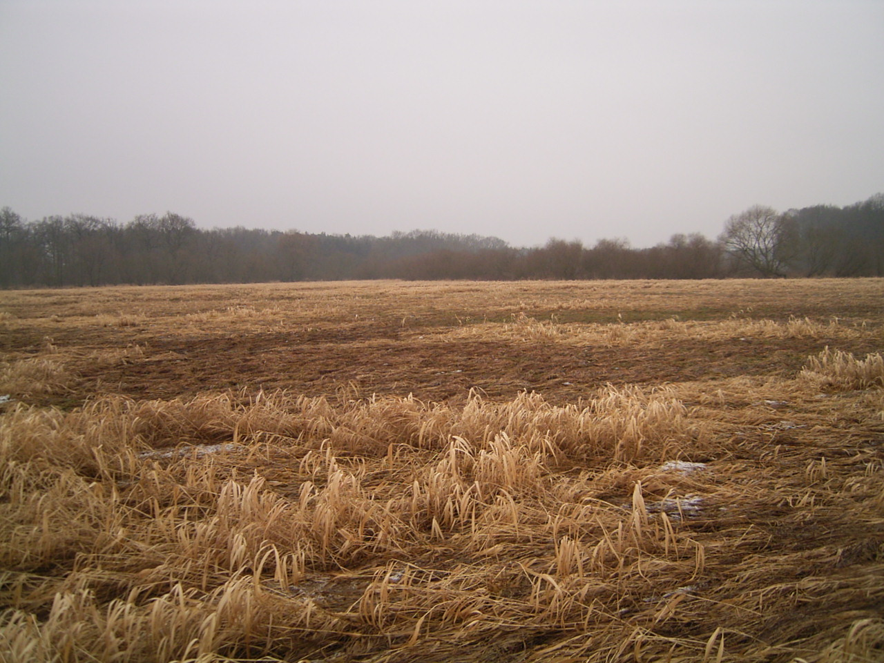 Wet grassland in winter, Northwestern Germany